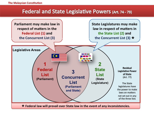 A diagram of the division of legislative areas between the Malaysian Federal Parliament and the States